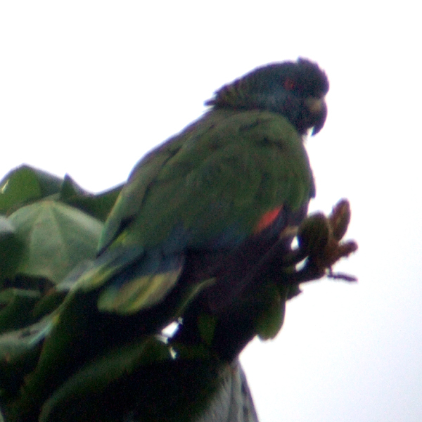 St Lucia Parrot on the island of St Lucia.